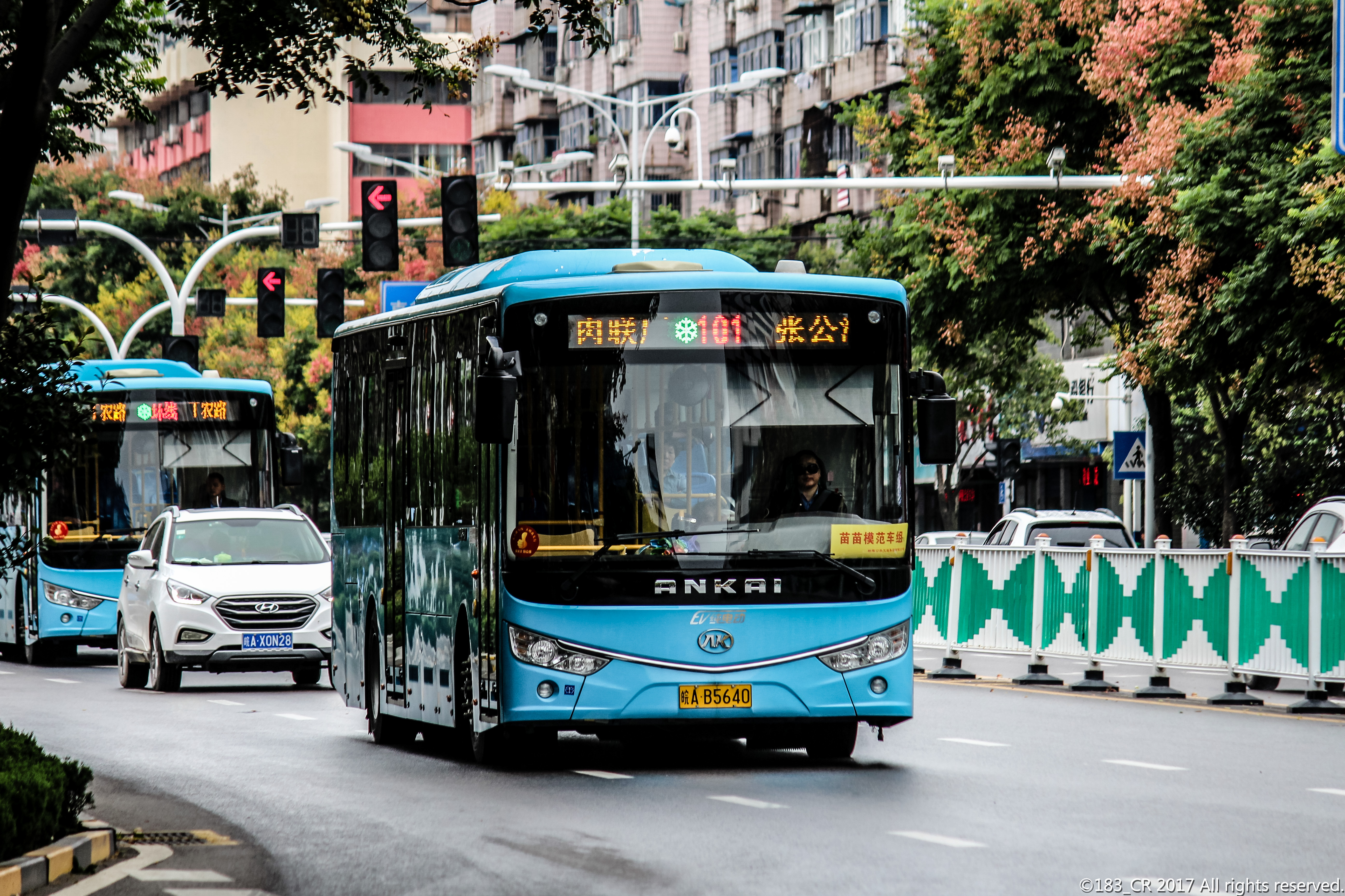 Bengbu Bus No.101 N